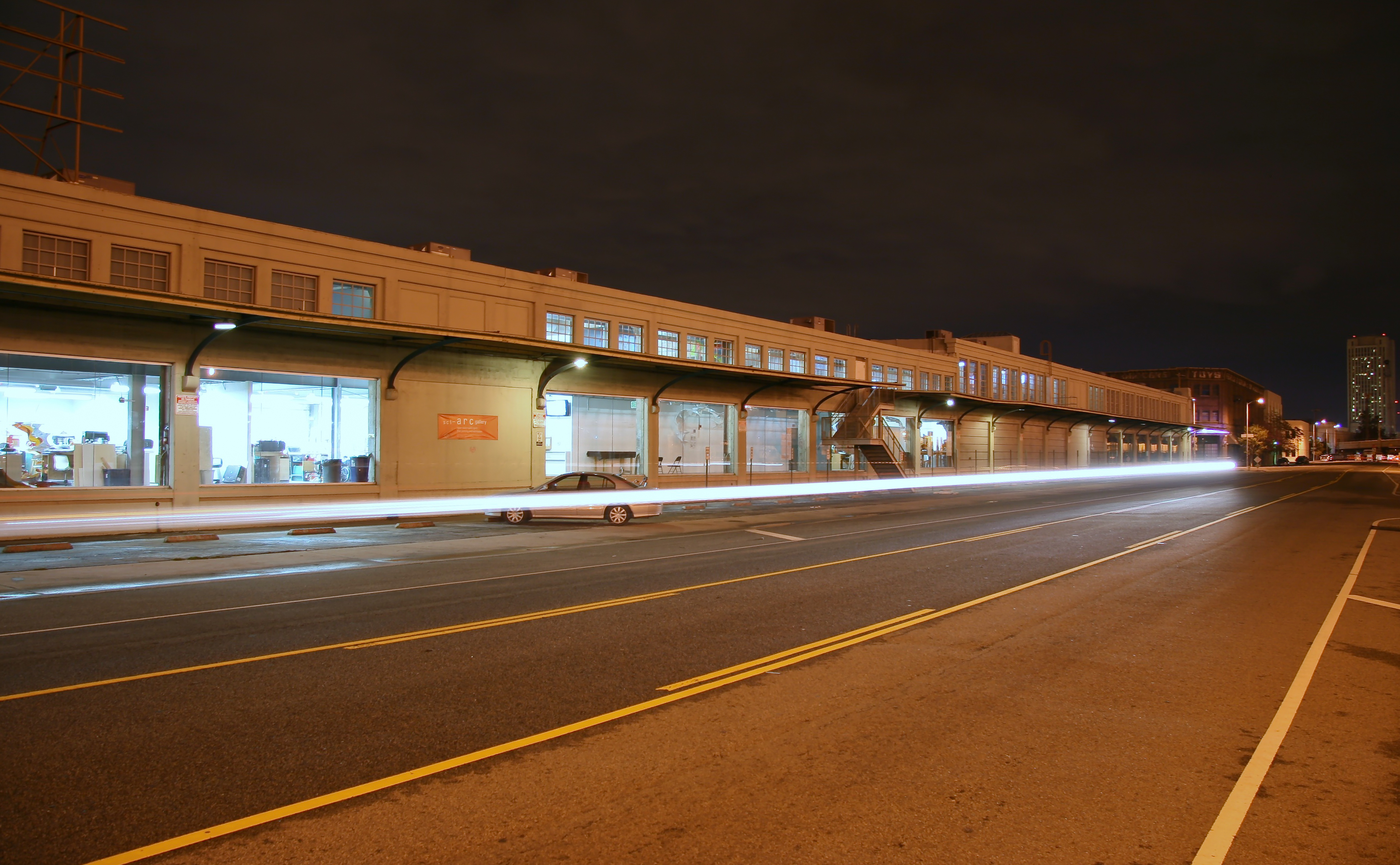 SciArc from Santa Fe